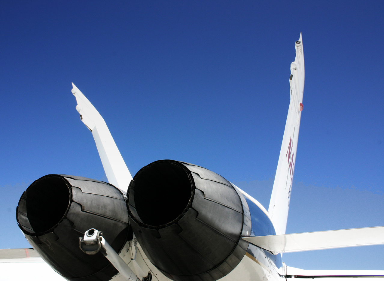 The outlet nozzles of the engines on a NASA F/A-18 Hornet. In between the nozzles, the aircraft’s tail hook can be seen.